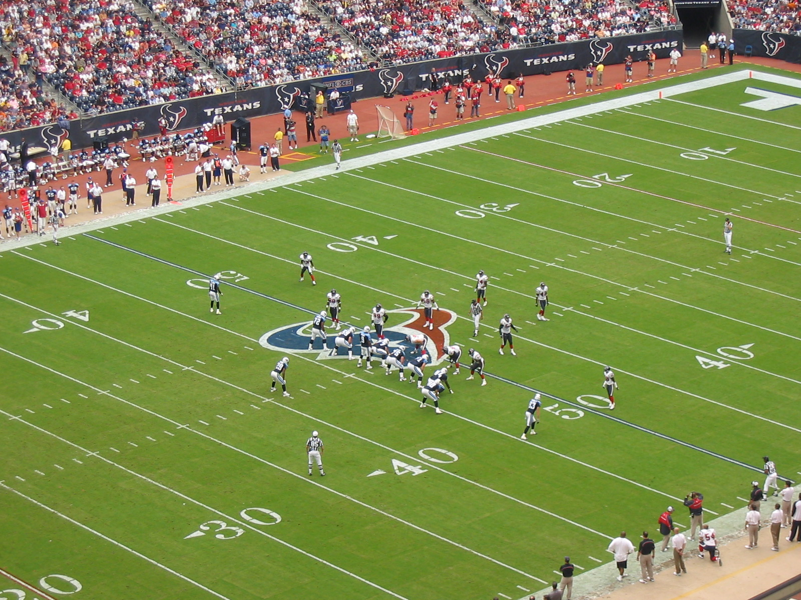 From an American football game between the Tennessee Titans (in navy blue) and the Houston Texans (in white)